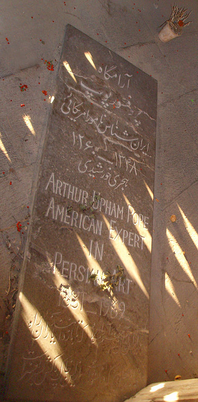 Gravestone in the mausoleum of Arthur Pope in Isfahan